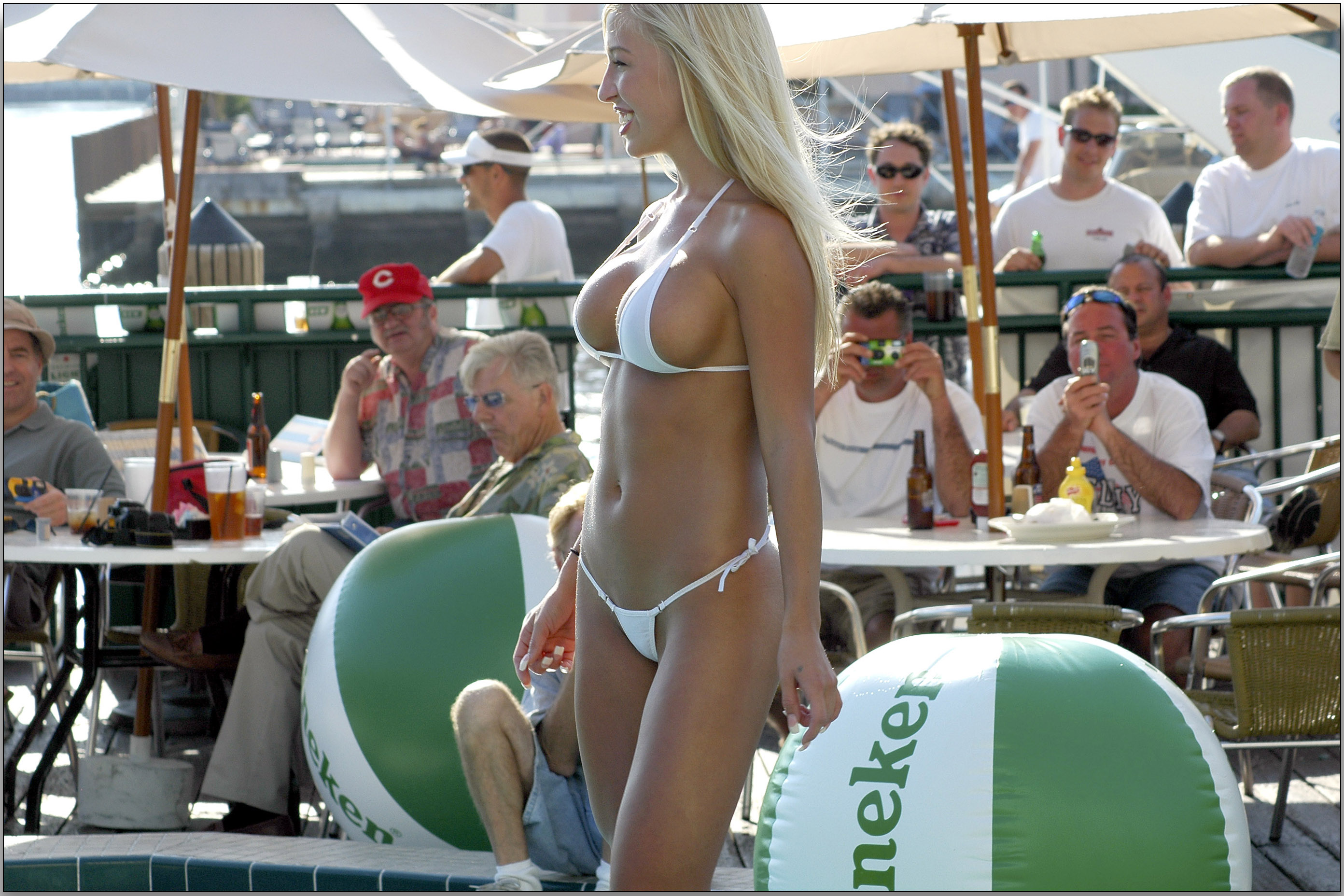 Hot Body contest, Florida (with residual border)